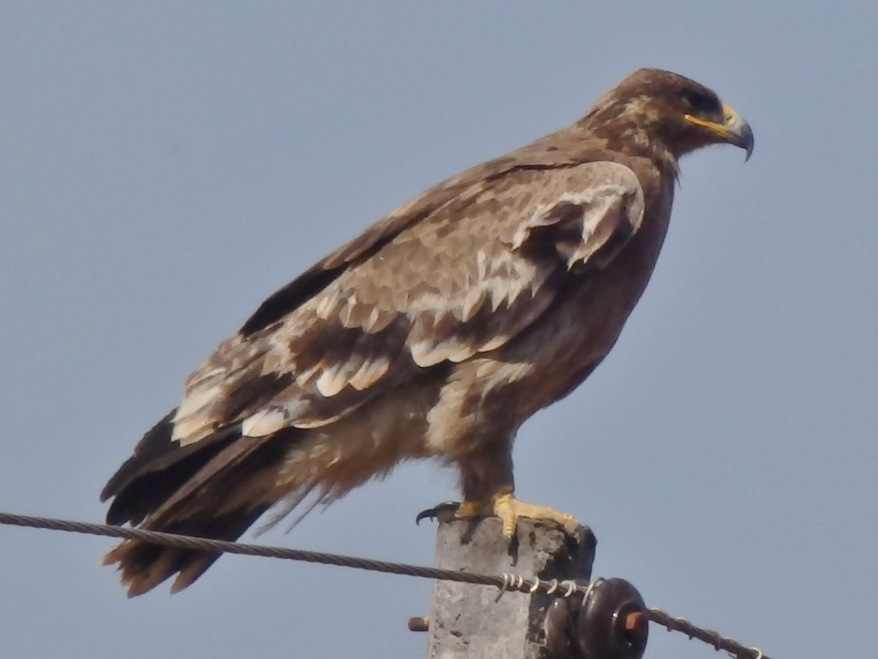 Aquila nipalensis Steppe Eagle